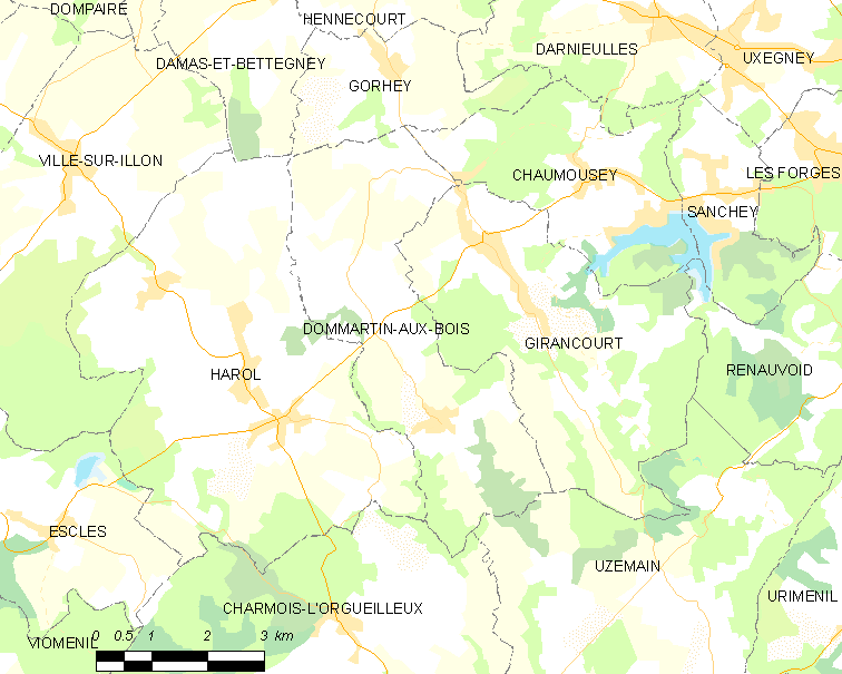 Map of French municipality Dommartin-aux-Bois